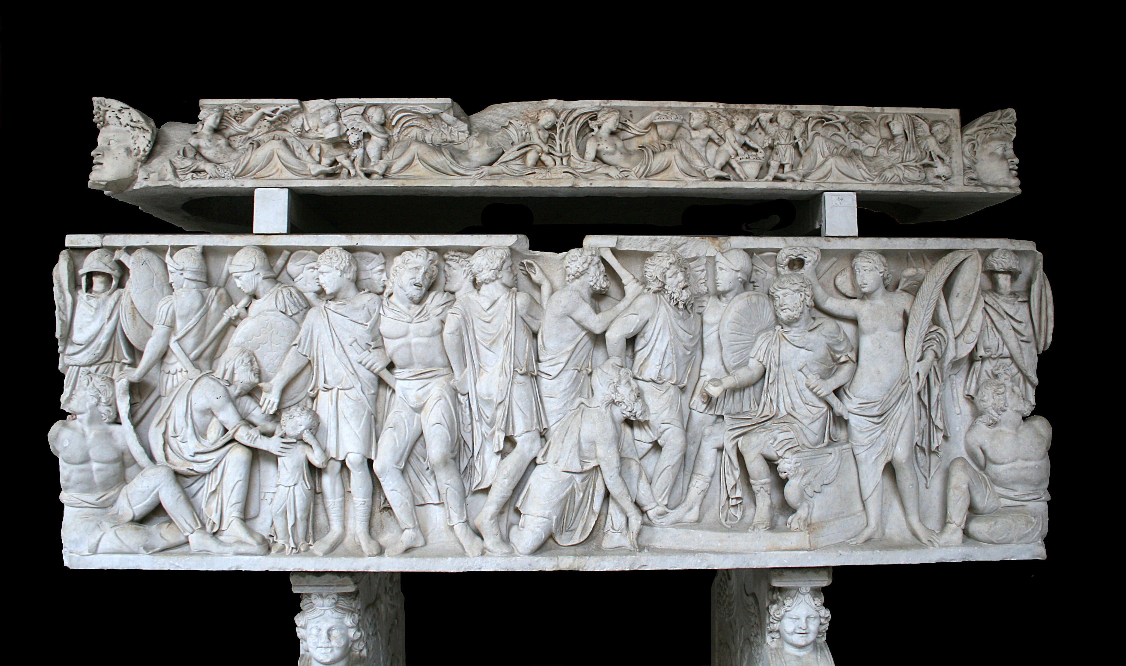 Front panel of the roman sarcophagus adorned with a relief representing the submission of the Sarmatians . - Cortile Ottagono, Museo Pio-Clementino of the Vatican Museums.